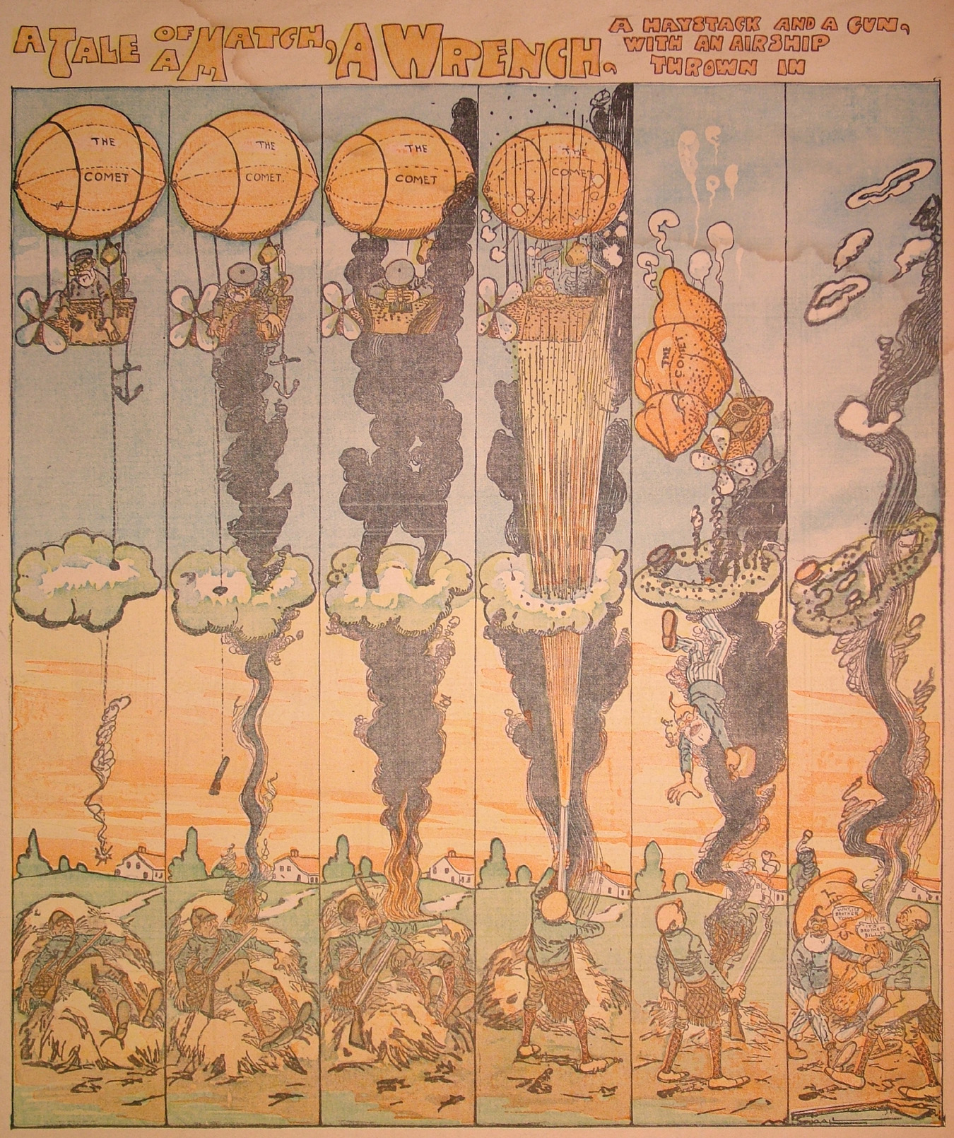 "A Tale of a Match, a Wrench, a Haystack and a Gun, with an Airship Thrown In" October 26, 1902